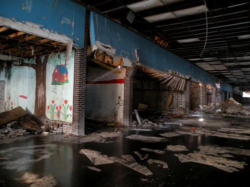 Image of "Block B" of Dixie Square Mall on March 14, 2009.